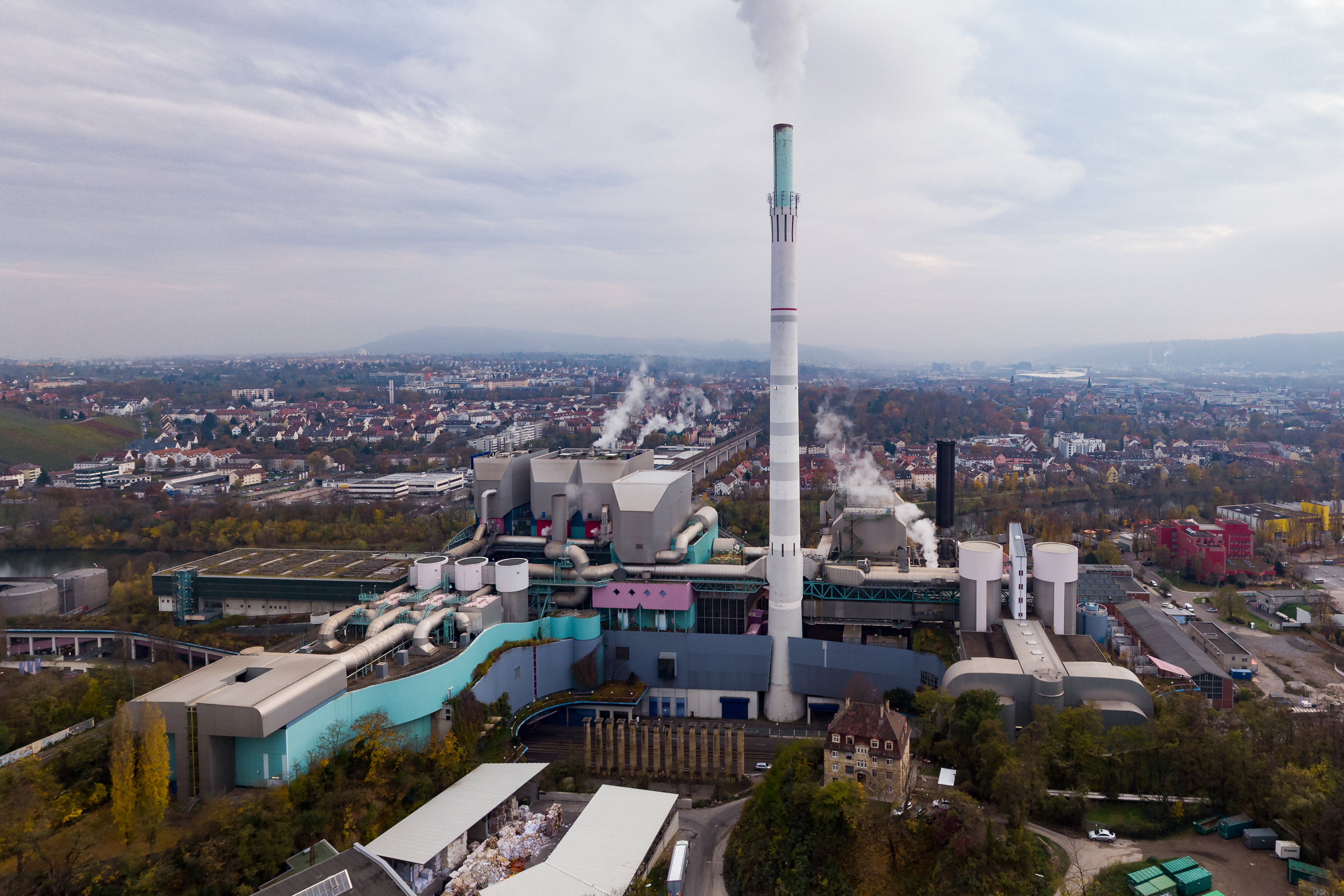 Kraftwerk Münster, a powerplant in the district of Münster in Stuttgart, Germany. Crop of spherical panorama shot by drone.